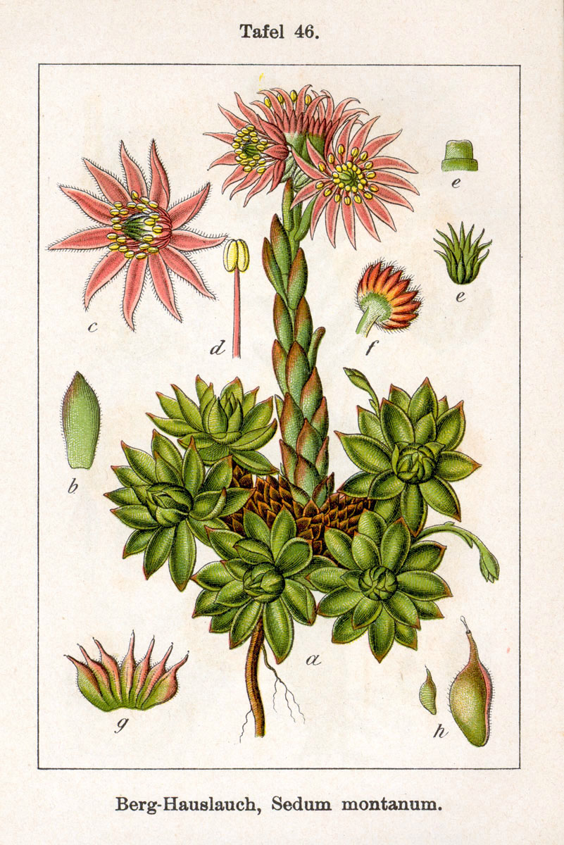 Sempervivum montanum L., syn. Sedum montanum E.H.L.Krause, nom. ill. Original Description Berg-Hauslauch, Sedum montanum